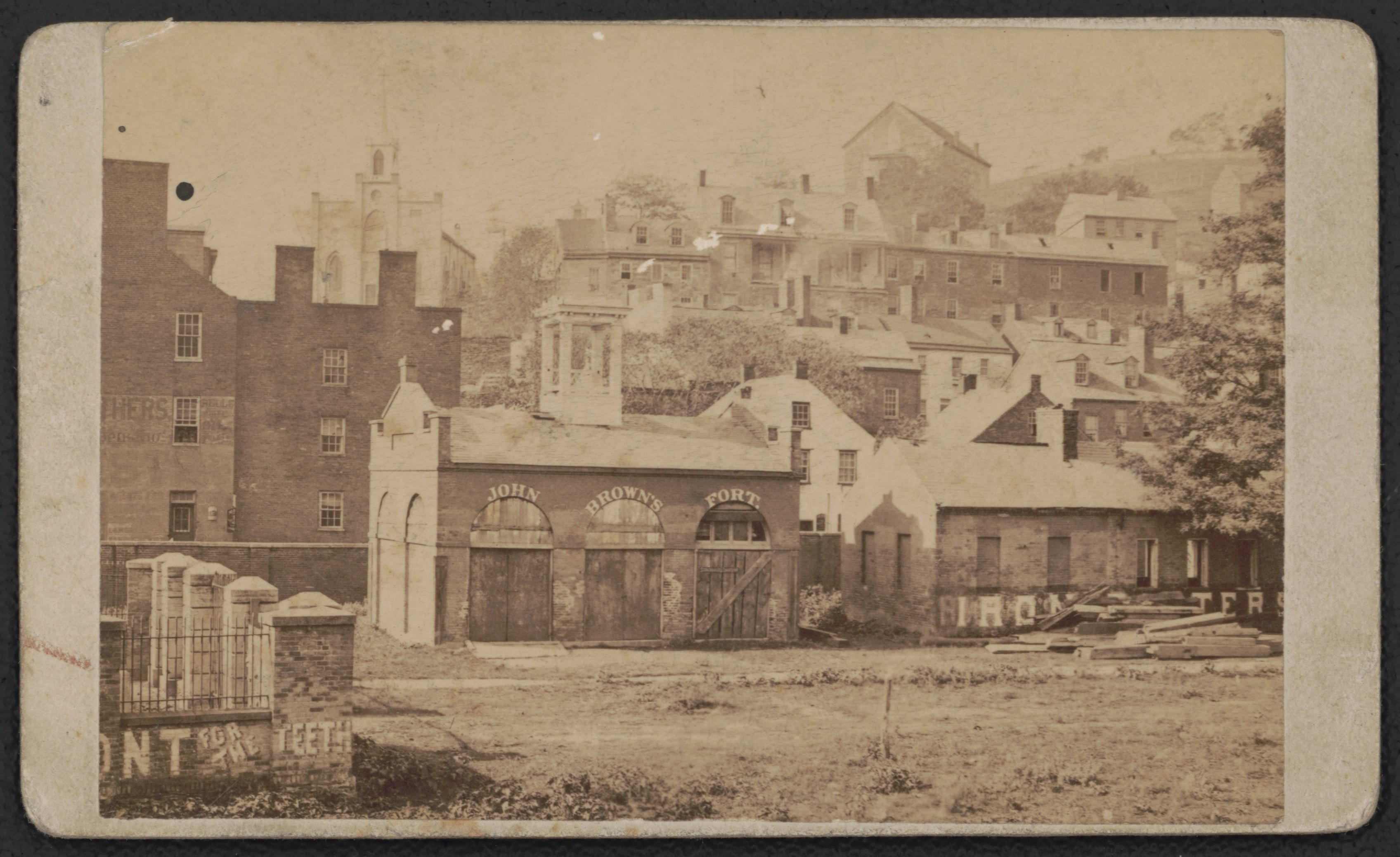 Title: John Brown's fort, Harpers Ferry, West Virginia Abstract/medium: 1 photograph : albumen print on card mount ; mount 6 x 11 cm (carte de visite format)